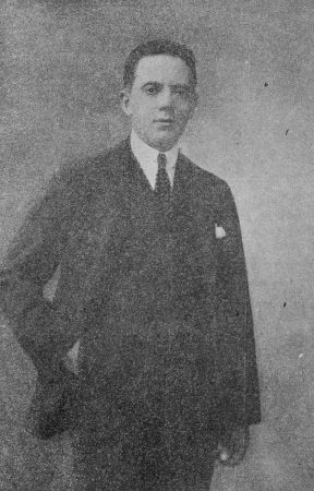 Georgios Isaias (1873-1957): Greek industrialist and politician